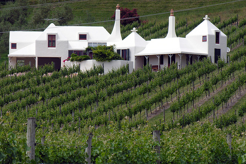 This is the owner's house